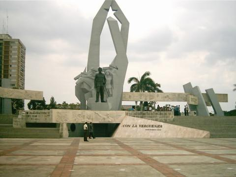 Ignacio Agramonte Square in Camaguey, Cuba